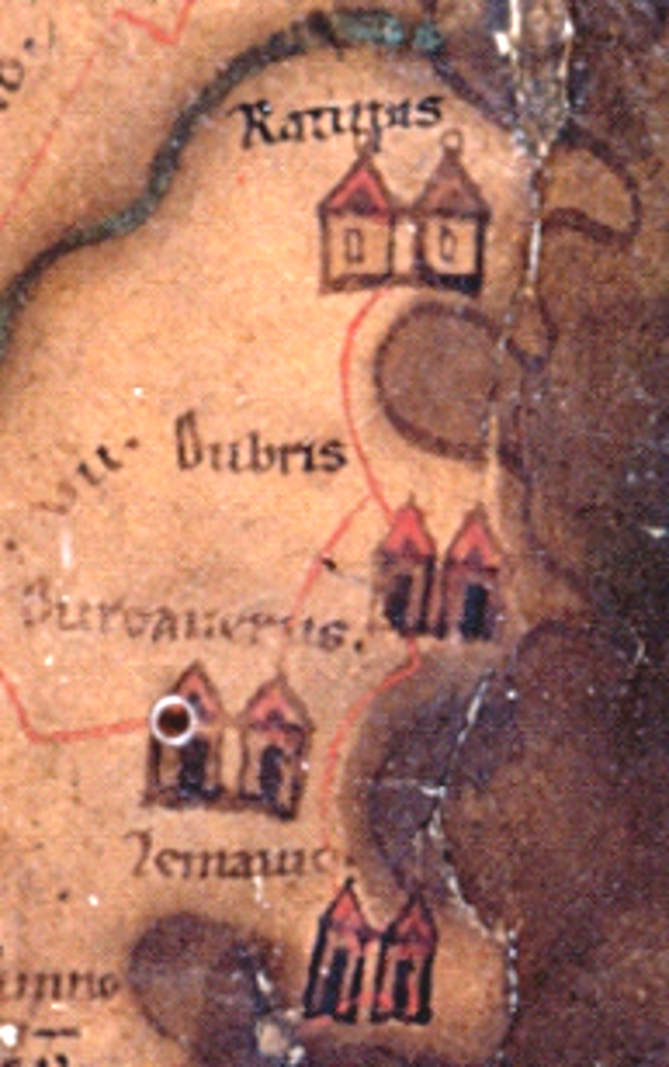 Peutinger Map showing Kent in late antiquity